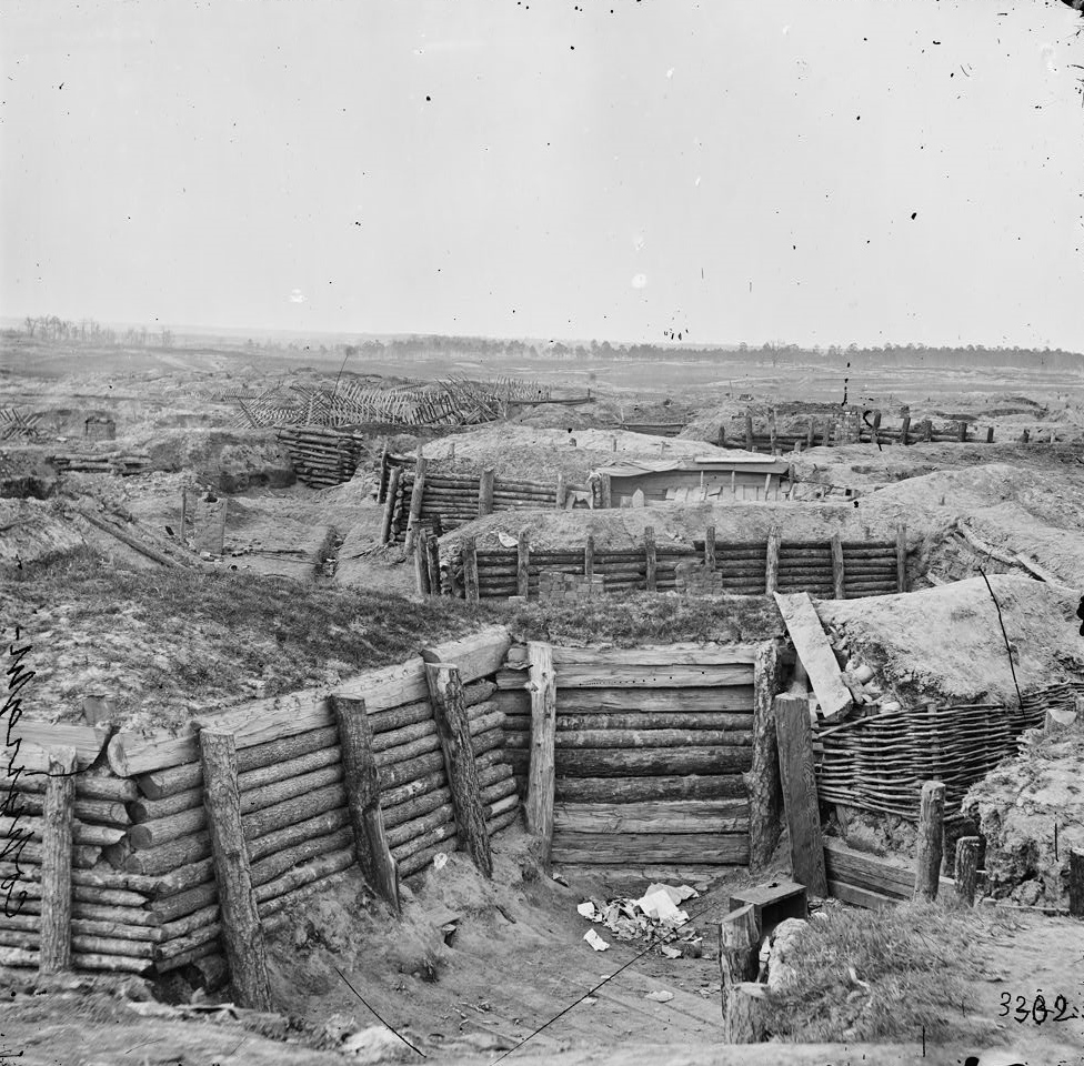 Photograph from the main eastern theater of war, the siege of Petersburg, June 1864-April 1865.